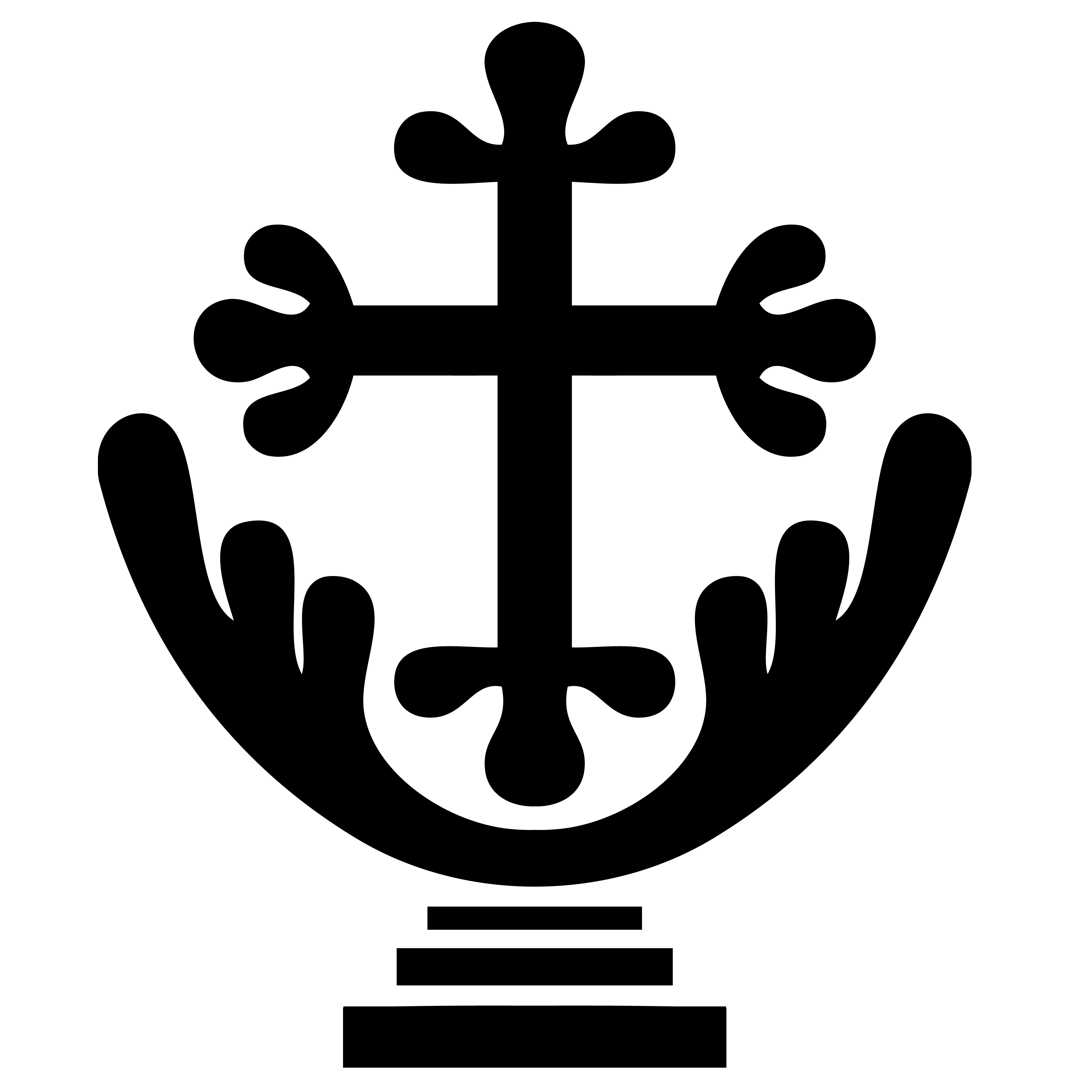 A portrait illustration of the cross which was found in 1912 during excavations in Anuradhapura. It is known as Anuradhapura cross or The Cross of Anuradhapura.